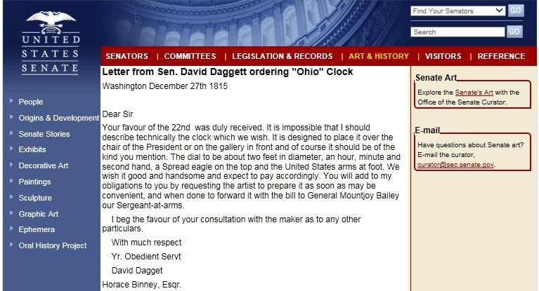 This is a reprint of the text of the original order for the Ohio Clock from the US Senate.